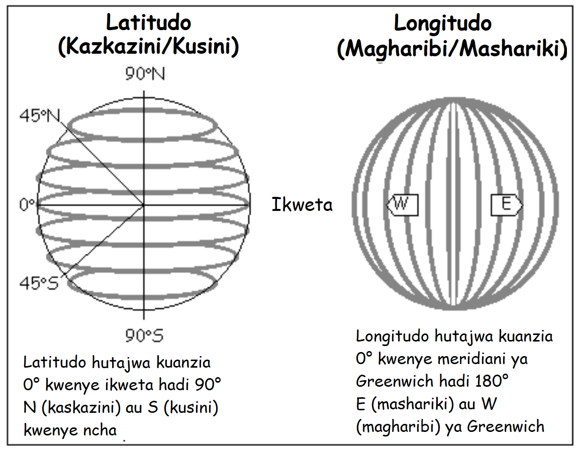 A simple figure showing Latitude and Longitude, text in Swahili